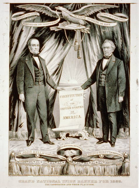 Campaign poster for 1860 U.S. presidential candidate John Bell and his running mate, Edward Everett